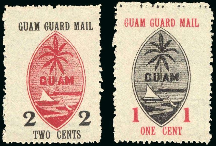 Local "Guam Guard Mail" 1-cent and 2-cent Guam Guard Mail labels showing Guam coat-of-arms for use on local delivery mail in Guam in 1930 and 1931